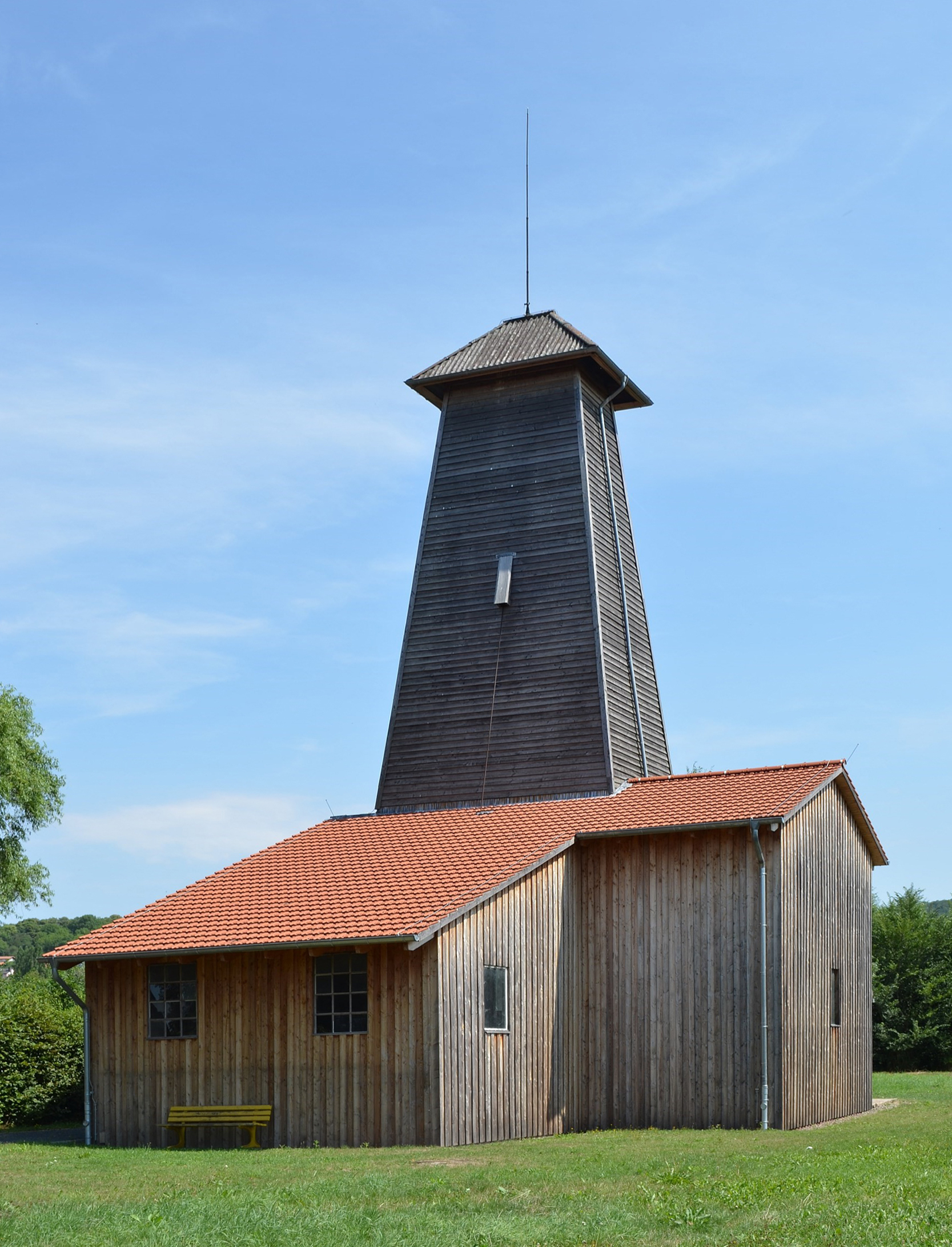 Einbeck (Lower Saxony, Germany) – district Salzderhelden – saline – drilling rig This is a photograph of an architectural monument.It is on the list of cultural monuments of Einbeck This photograph was taken with a Nikon D7000